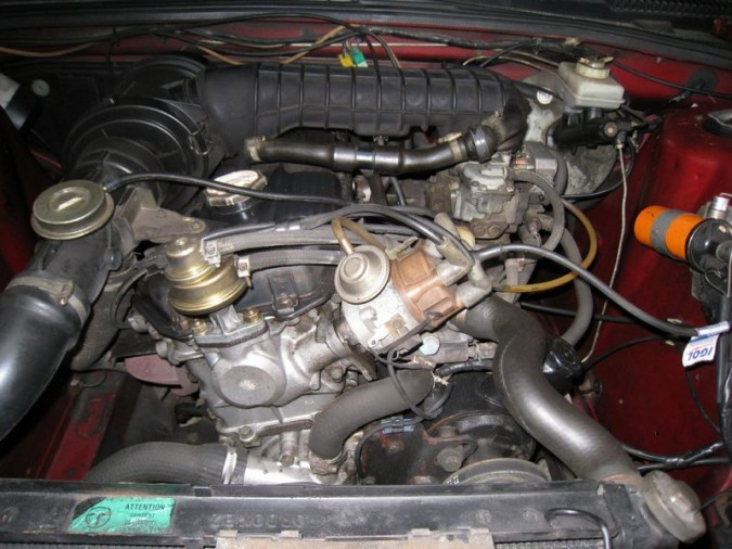 Engine of 1983 Talbot Tagora 2.2 GLS